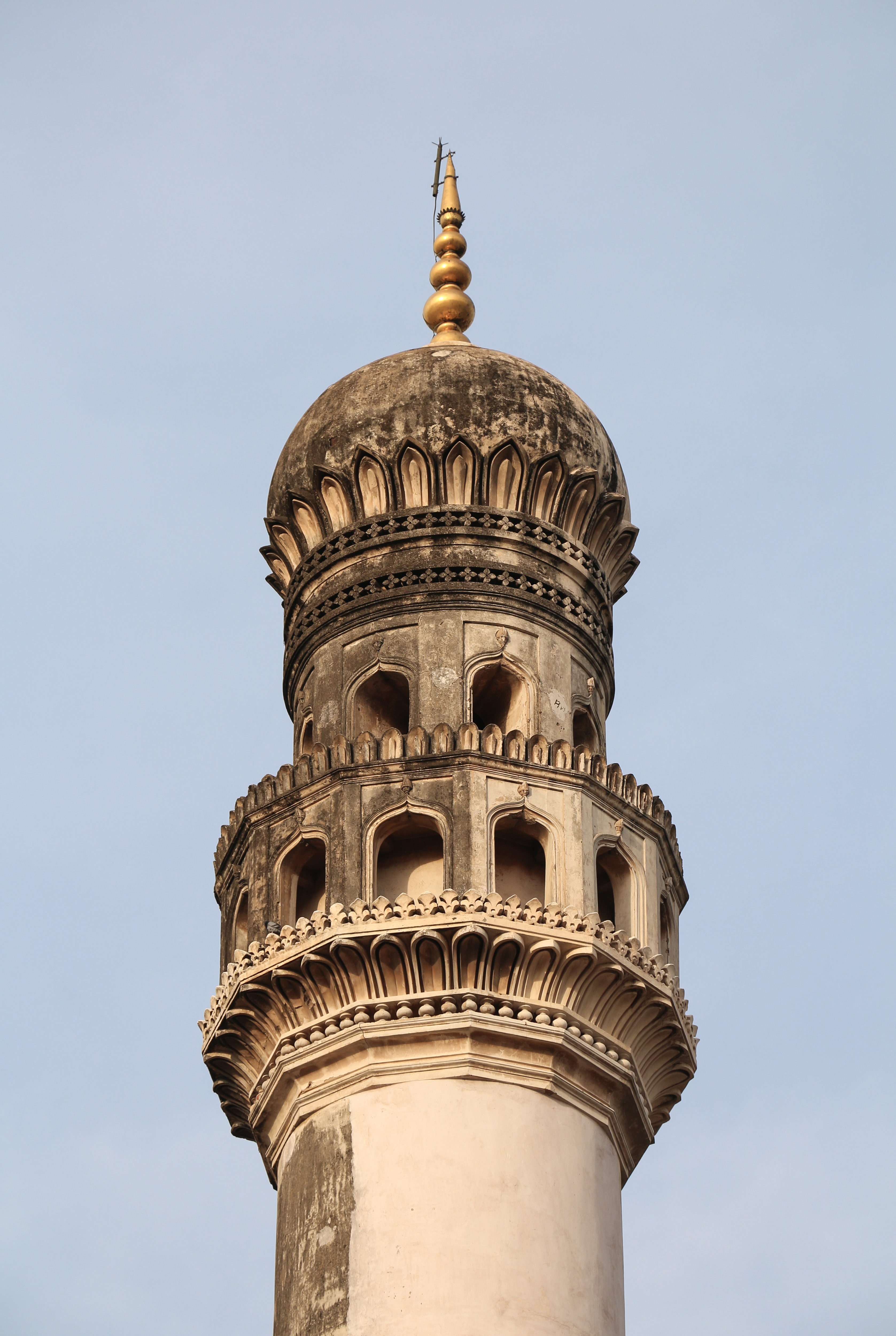 A minaret of the Charminar, Hyderabad, India